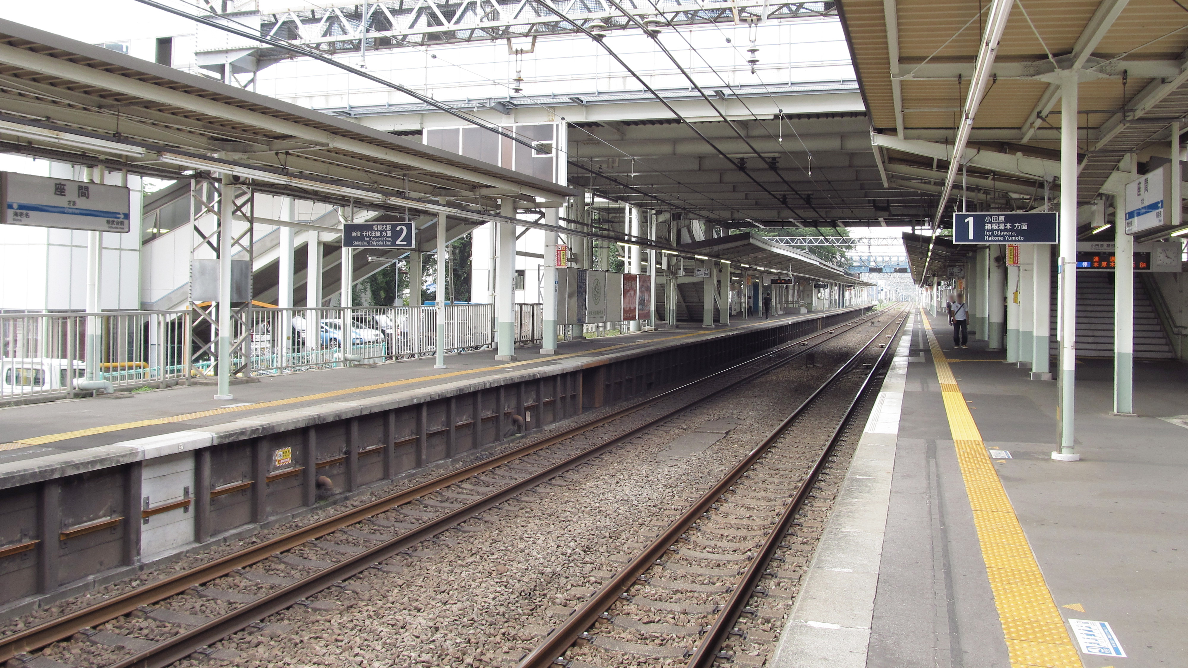 The platforms at Zama Station on the Odakyū Electric Railway Odawara Line in Zama city, Kanagawa, Japan